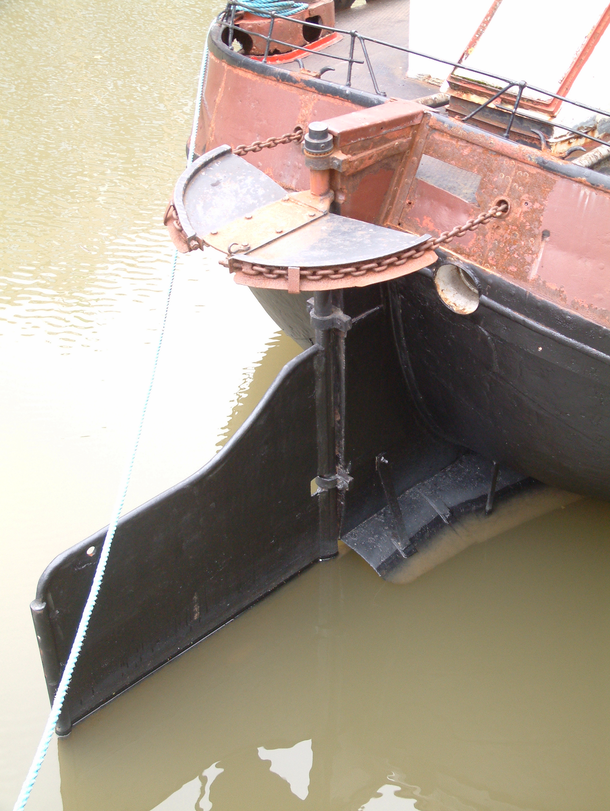 Half tunnel above the propeller of a barge